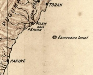 Samasana Insel (Karte 1905)